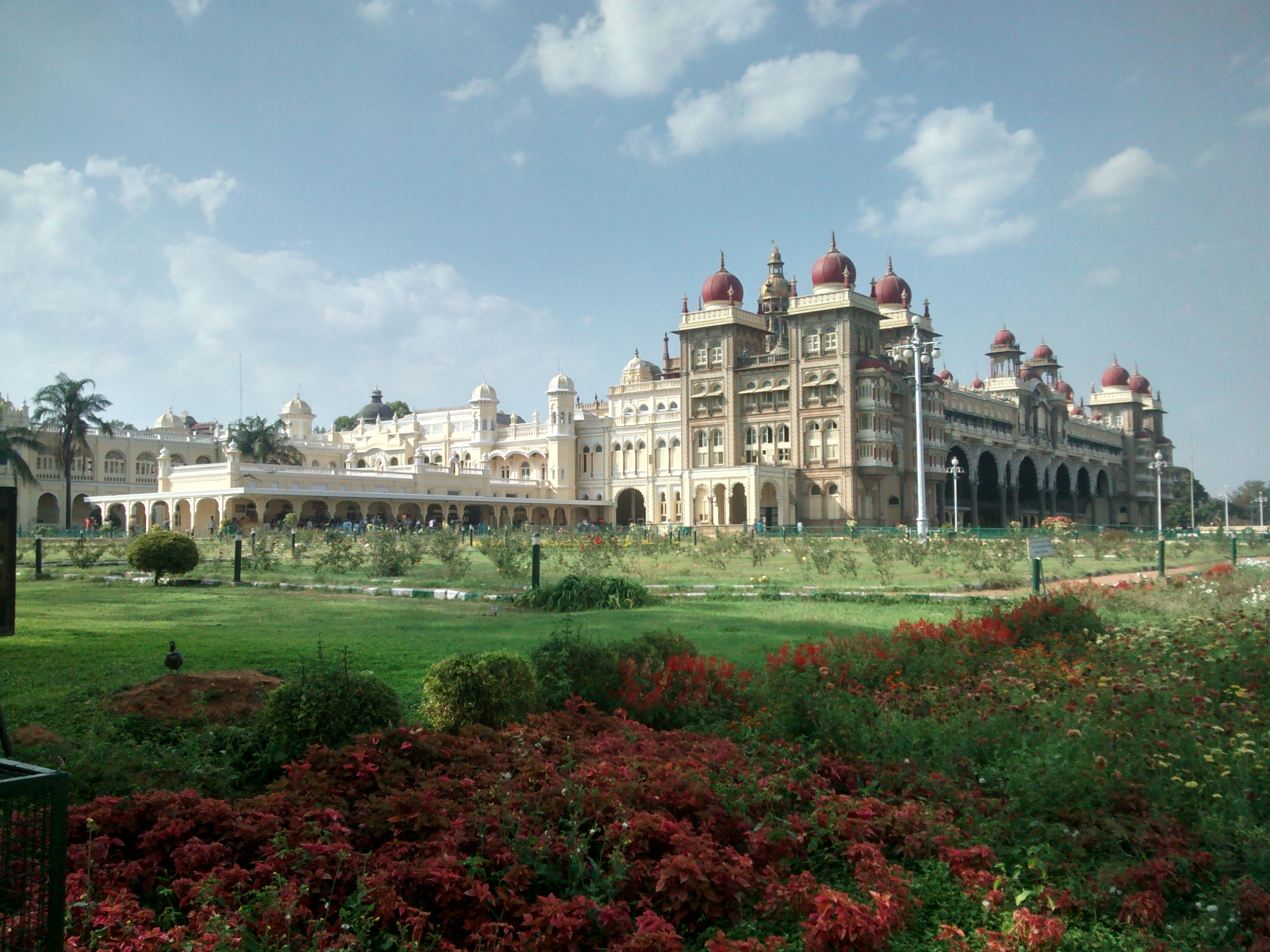 Mysore Palace as viewed from south gate.